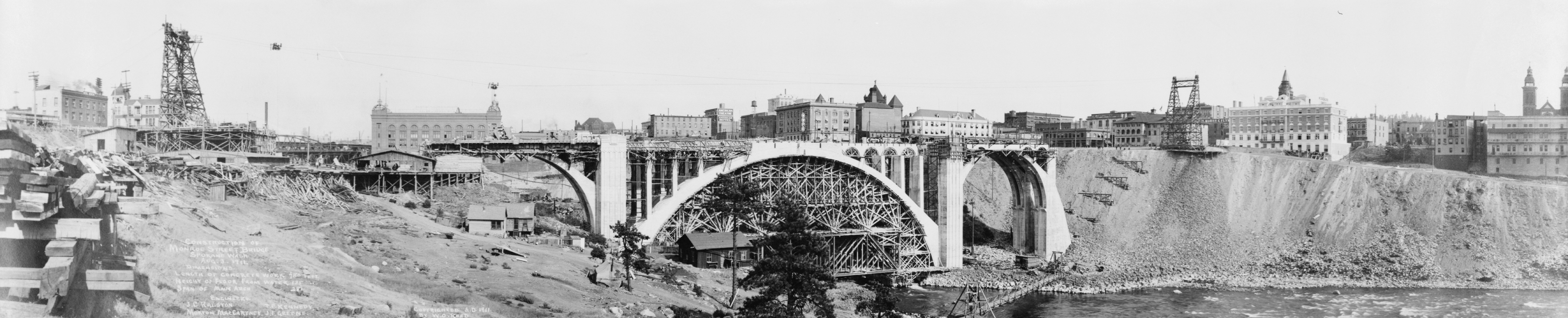 Construction of Monroe Street Bridge, Spokane, Wash. On front under title: "Dimensions. Length of concrete work, 780 feet. Height of floor from water, 135 [feet]. Span of main arch, 281 [feet]. Engineers; J. C. Ralston, T. F. Kennedy, Morton MacCartney, J. F. Greene. Copyrighted A.D. 1911 by W. O. Reed, Spokane, Wash."